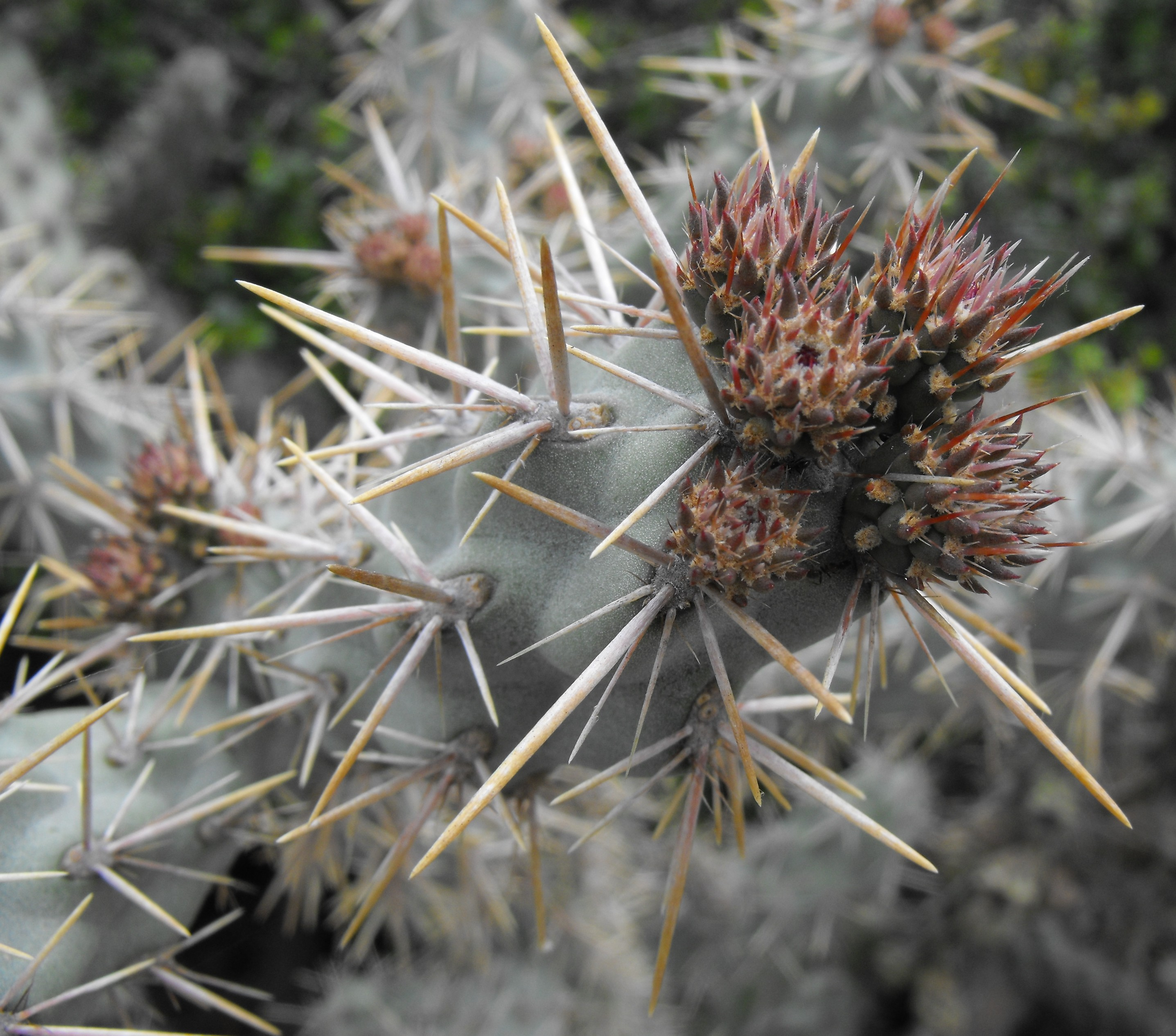 Cylindropuntia prolifera - at the Rancho Santa Ana Botanic Garden in Claremont, Southern California, U.S. Identified by garden i.d. sign as Opuntia prolifera.